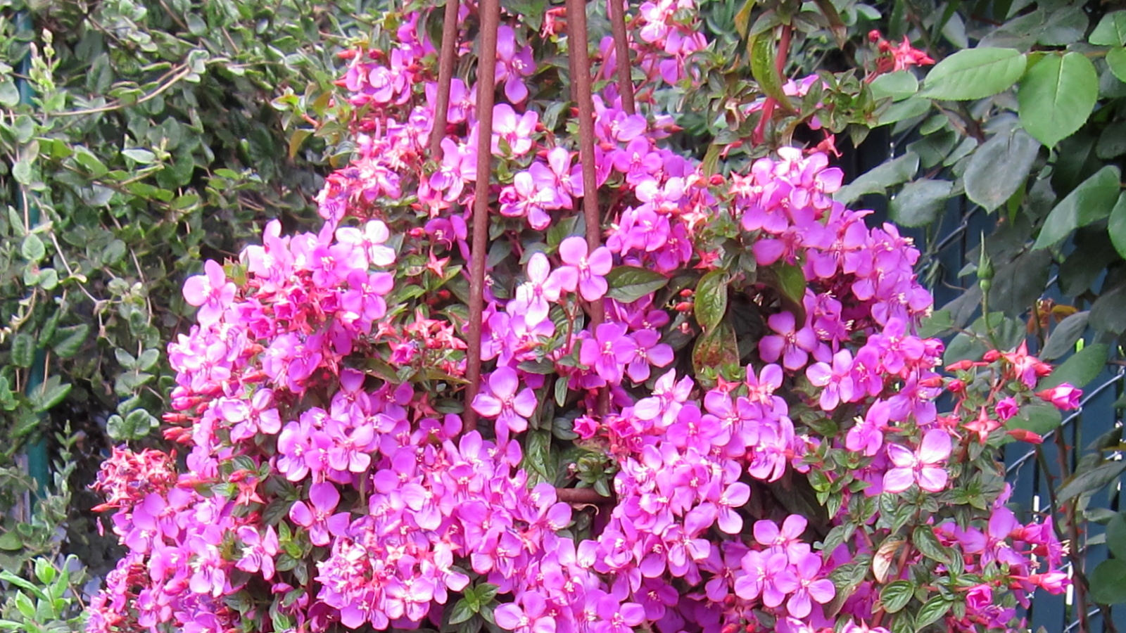 150320 515 Annie's Annuals - Demo Beds, Centradenia floribunda Spanish Shawl